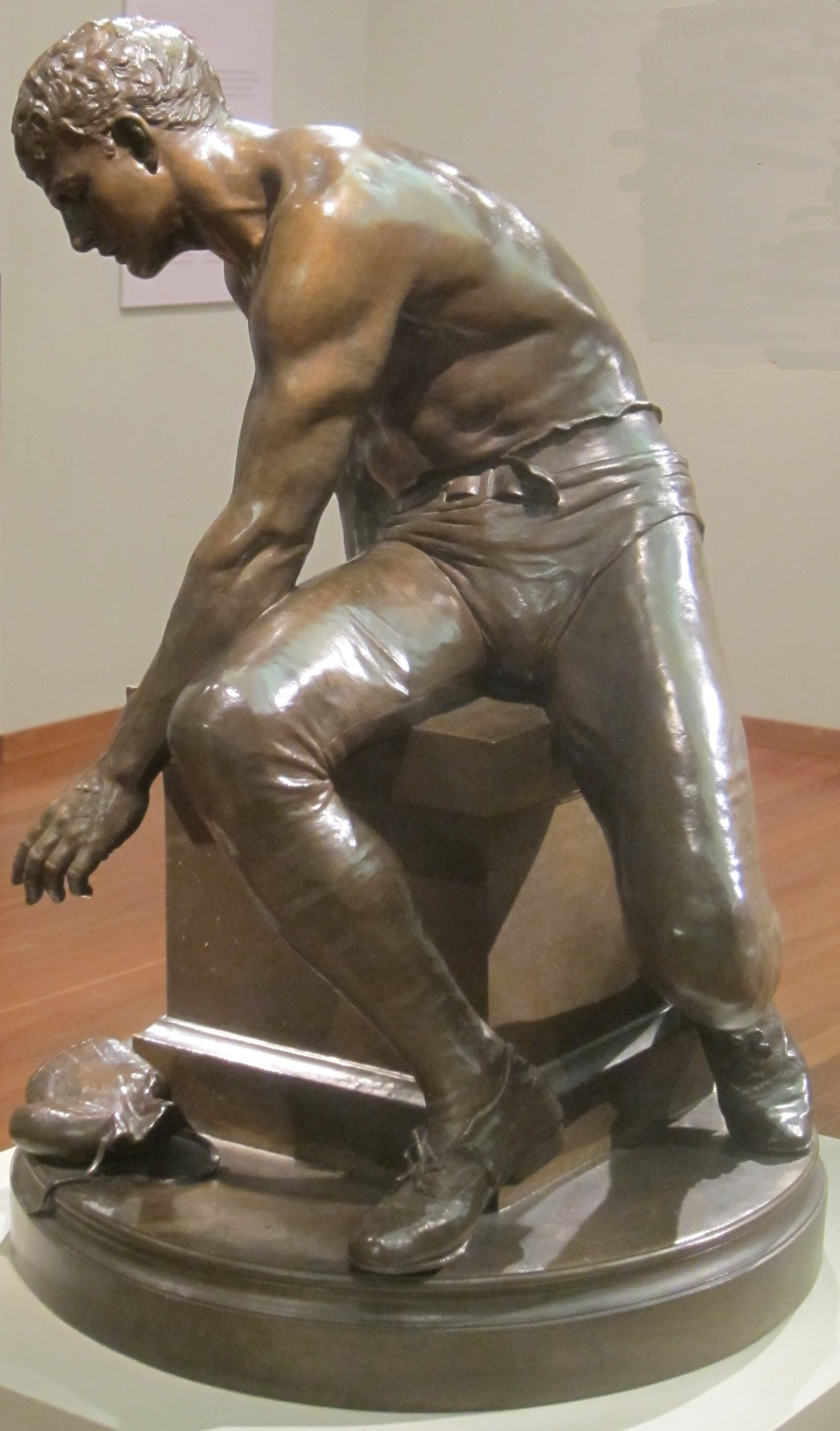 The Tired Boxer, bronze sculpture by Douglas Tilden, 1892, De Young Museum